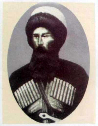 Sheik Mansur Ushurma (1732-1794), leader of Northern Caucasus resistance against Russian Empire at the end of the XVIII century.